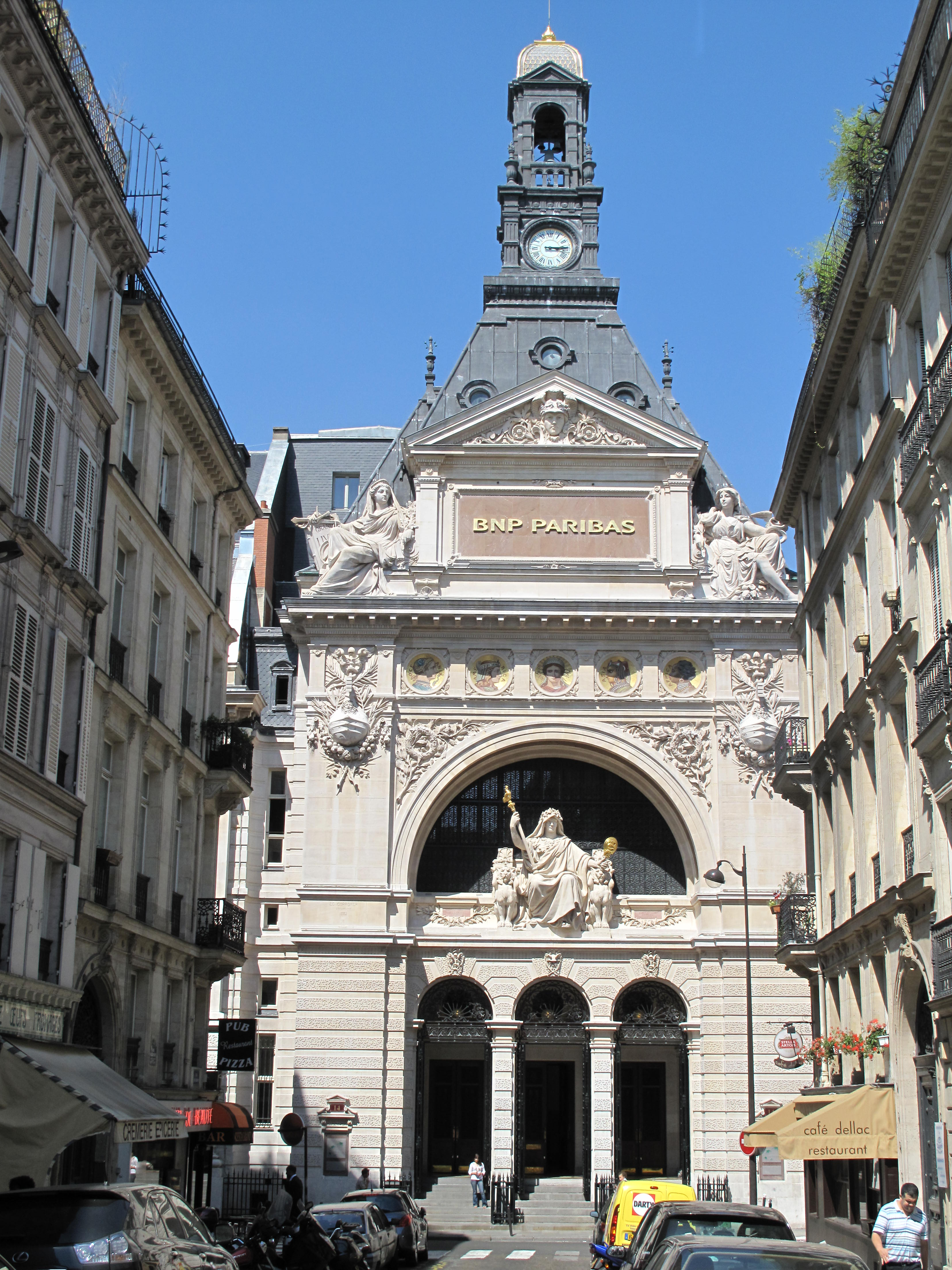 Head offices of the former CNEP bank, now BNP-Paribas, 14-20 Rue Bergère, Paris 9th arr., as seen from the Rue de Rougemont